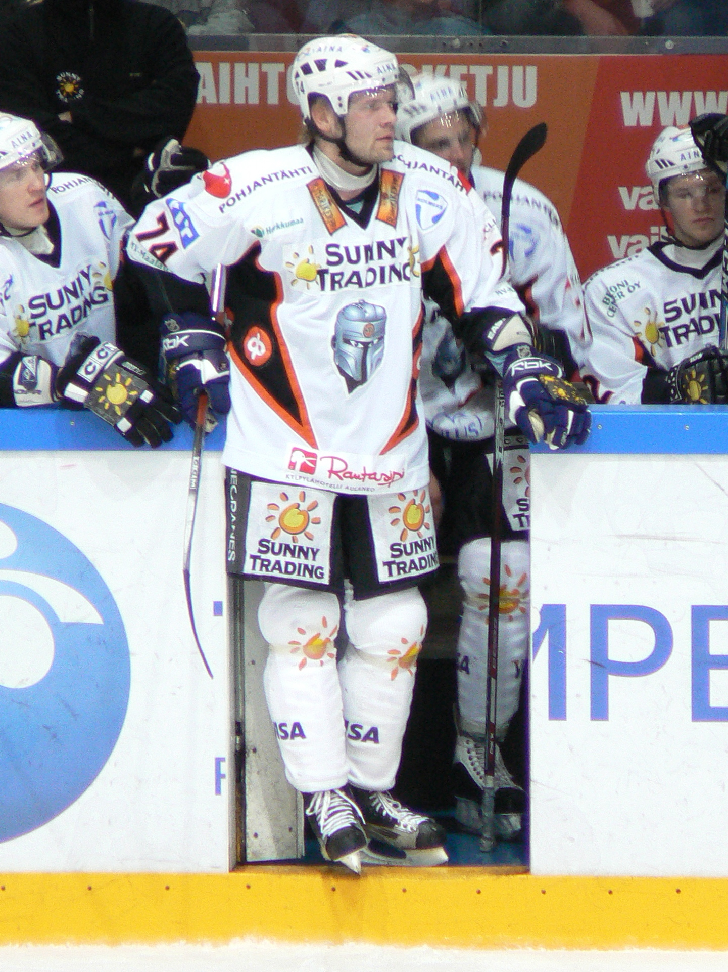 Finnish ice hockey winger Pasi Nielikäinen playing for HPK Hämeenlinna in January 2008.